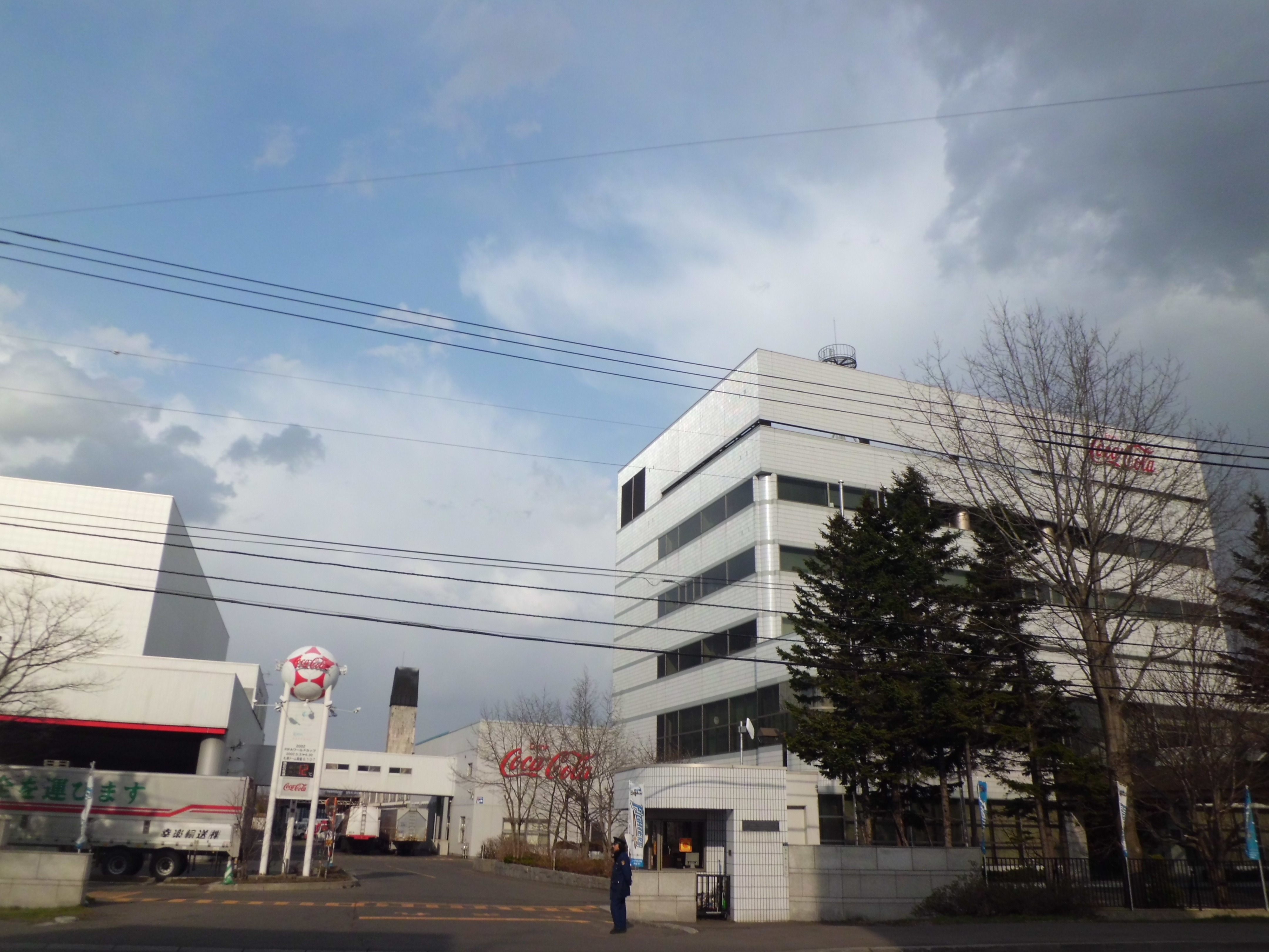 Hokkaido Coca-Cola Bottling